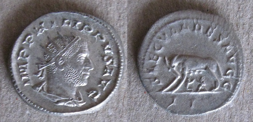 Philip the Arab, antoninian coin of 247 for 1000th year of Rome. Wolfin with Romulus and Remus